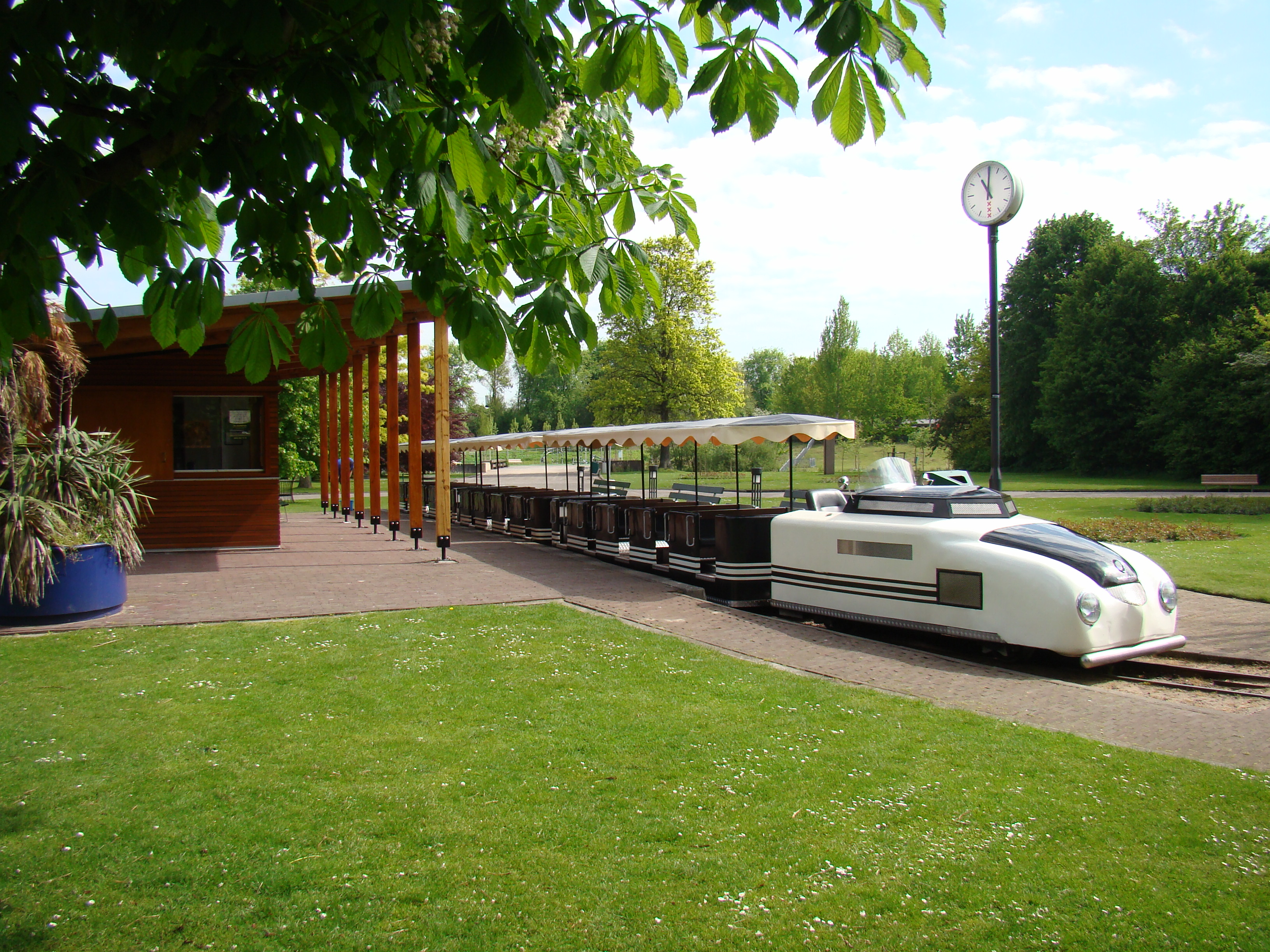 The Amsteltrein in the Amstelpark, Amsterdam, the Netherlands. The Amstelpark is a park originally created for the 1972 Floriade.